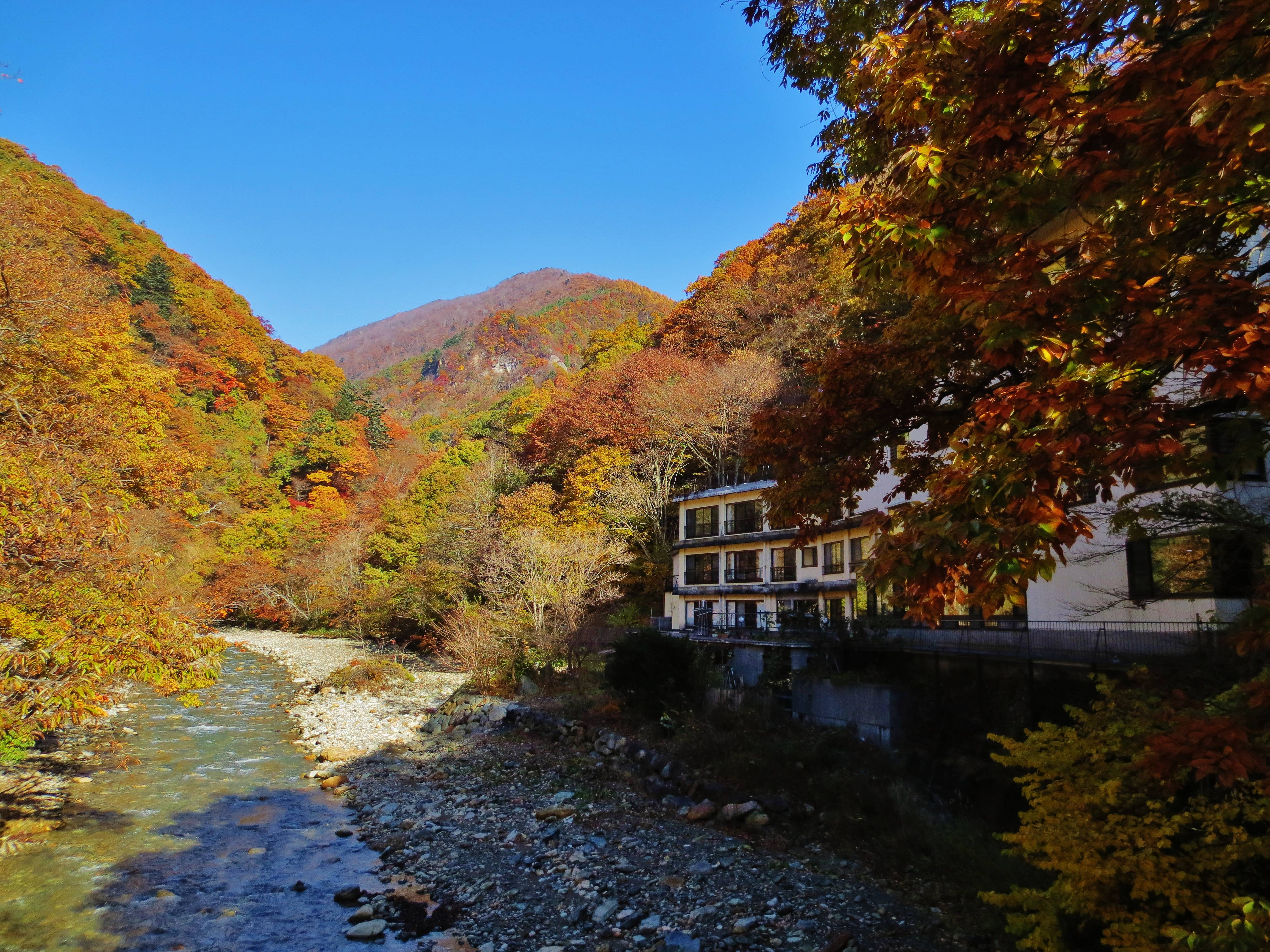 Kawafuru Onsen.